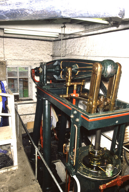 Beam engine, Combe Mill Rotative beam engine from 1852. It lay idle for 60 years before its restoration to steaming condition.